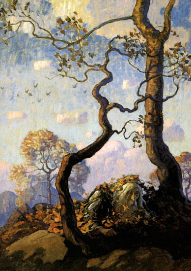 Rip Van Winkle Illustration by NC Wyeth